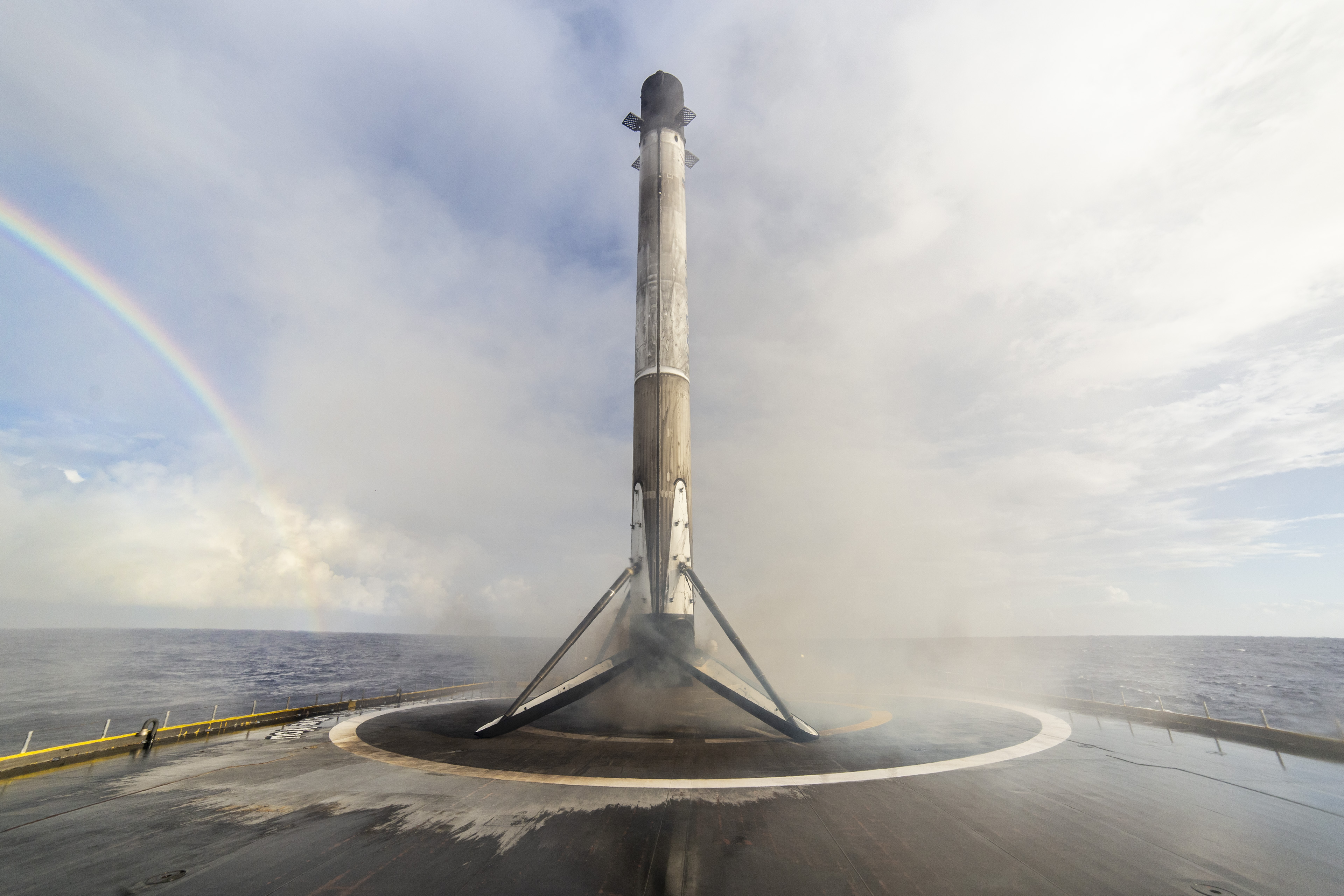 Es'hail-2 Mission